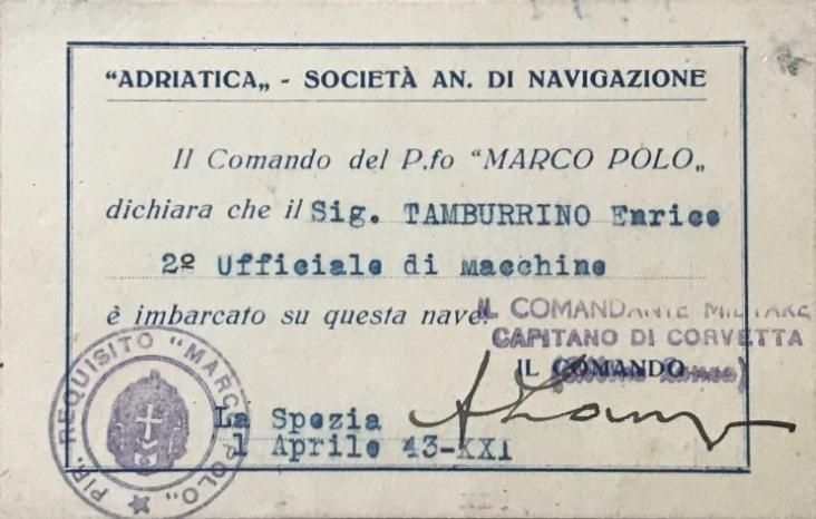 Boarding pass for a marine engineer of the requisitioned SS Marco Polo (Adriatic Soc. di. navigazione), issued 1-4-1943 in La Spezia (war port)